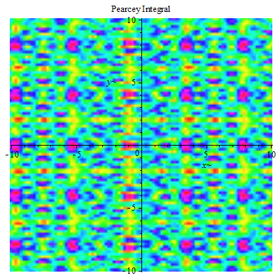 Pearcey Integral Maple density plot